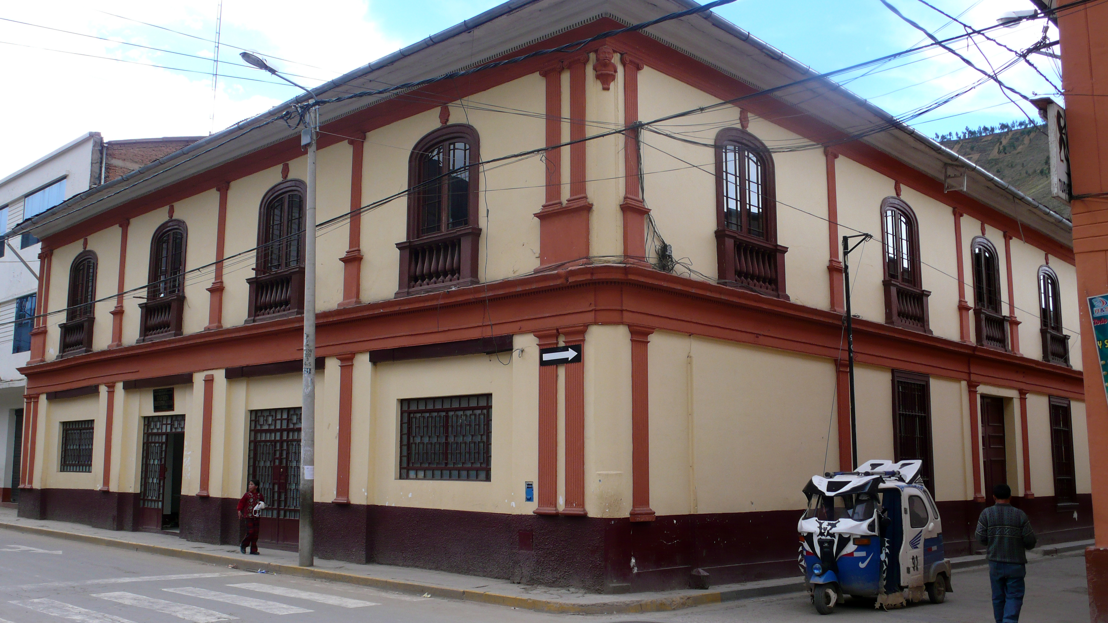 Colonial-republican style house in Tarma, Peru